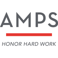 The logo of the non-profit charter school system, Amethod Public Schools.